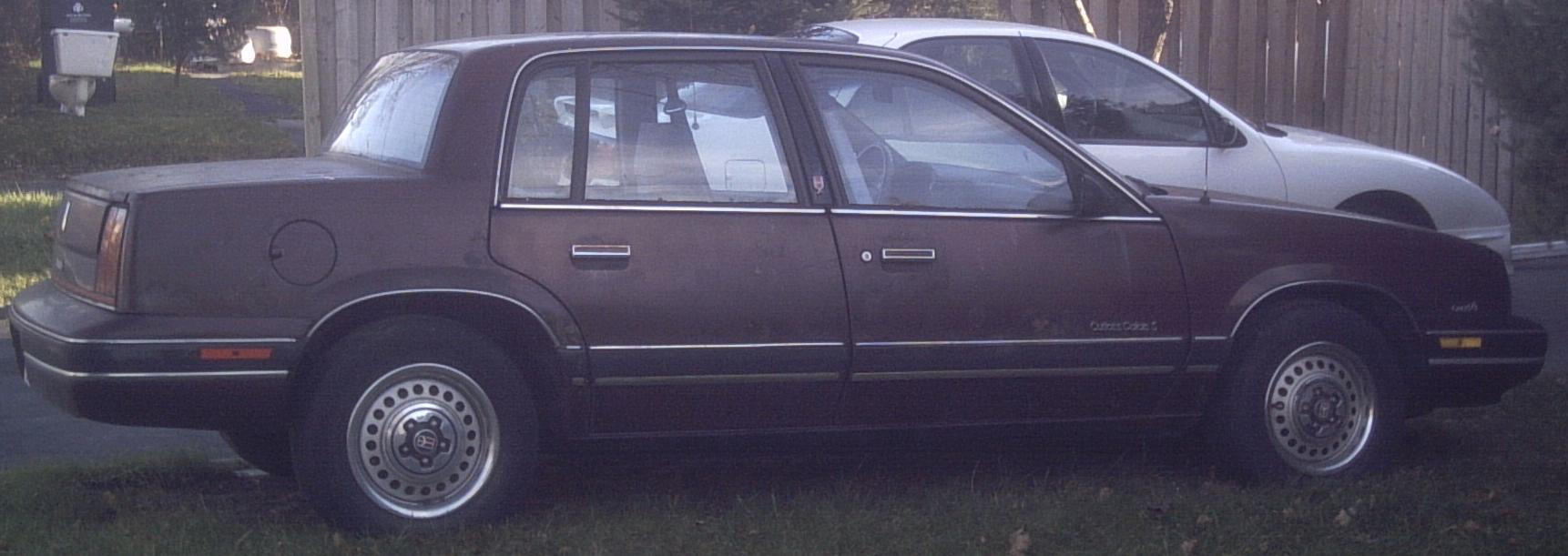 1989-1991 Oldsmobile Cutlass Calais photographed in Montreal, Quebec, Canada.